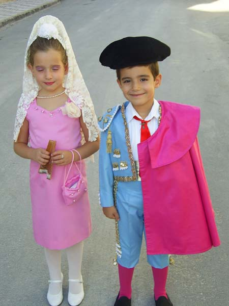 Children dressed for Carnival